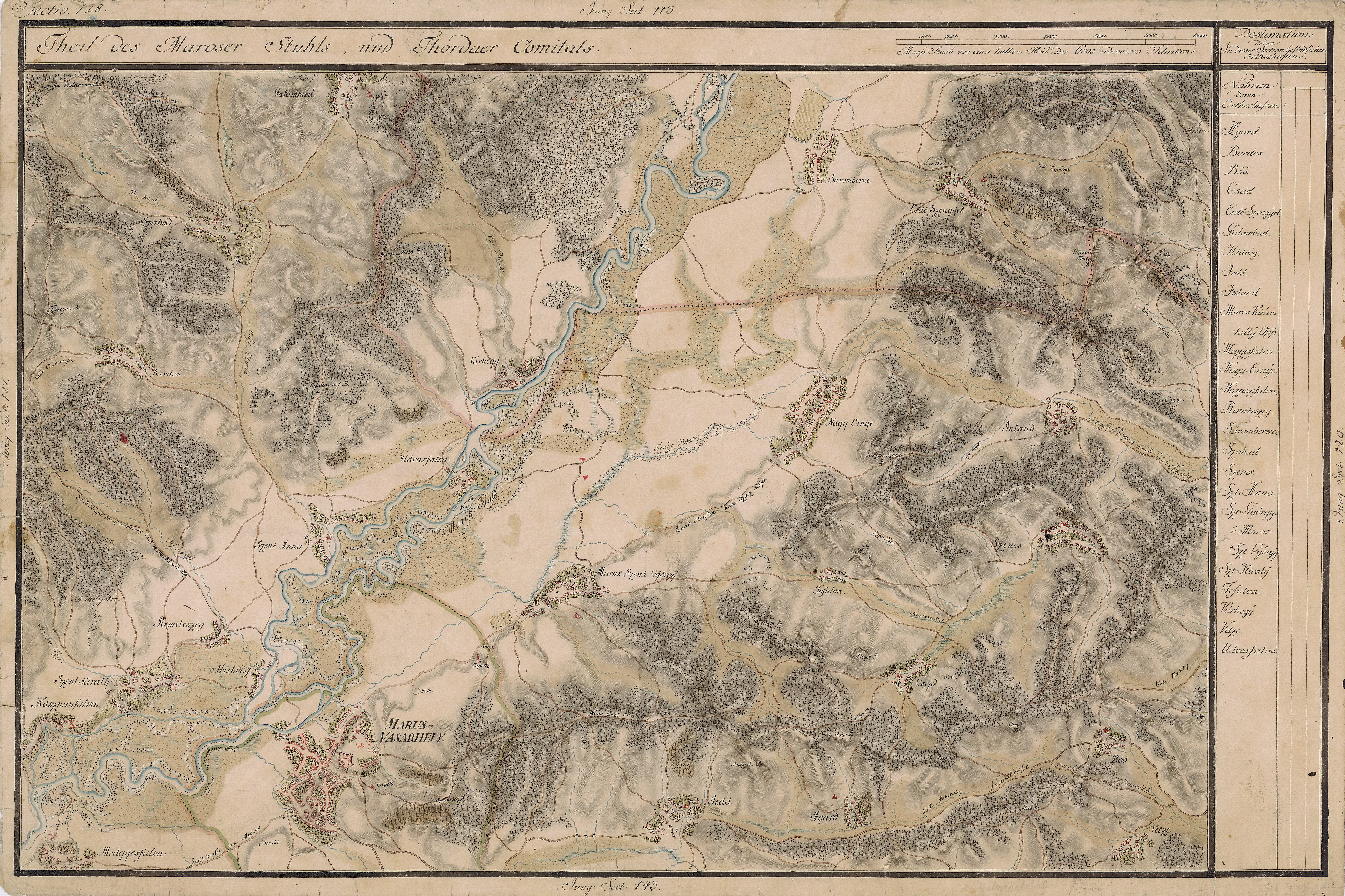 Grand Duchy of Transylvania, 1769-1773. Josephinische Landaufnahme pg.128